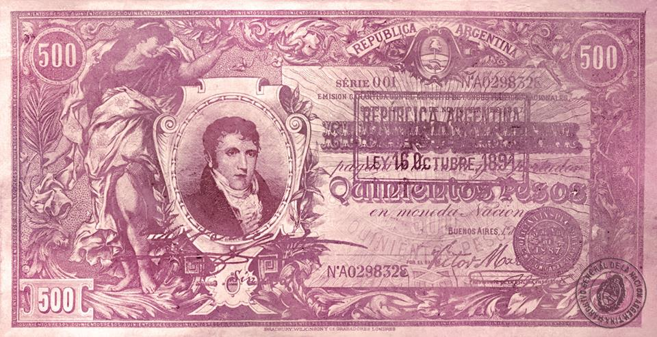 A 500 pesos banknote of Argentina, with a portrait of Manuel Belgrano on its front.